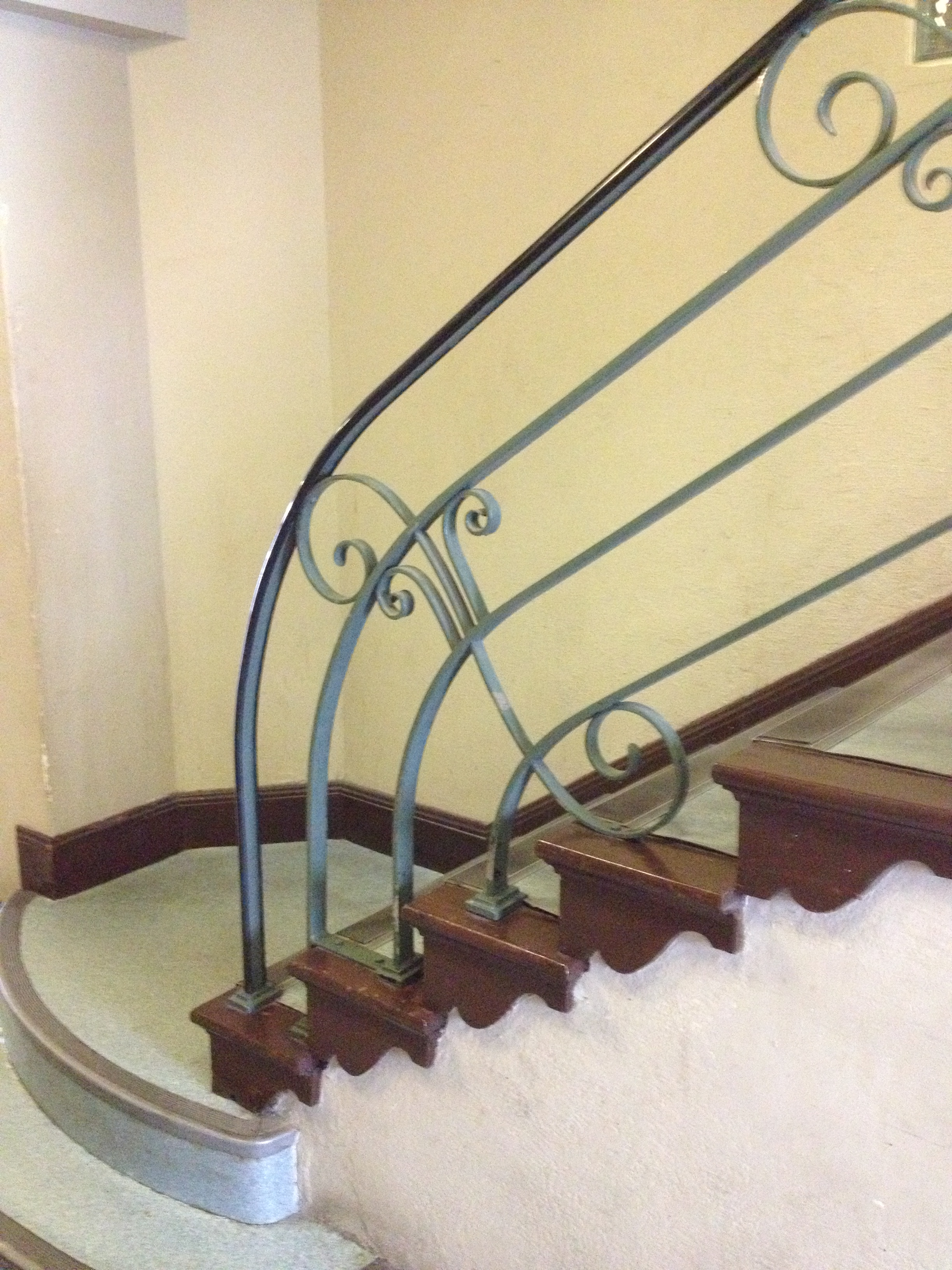 Detail of the staircase in Belgenny, Taylor Square, Sydney.